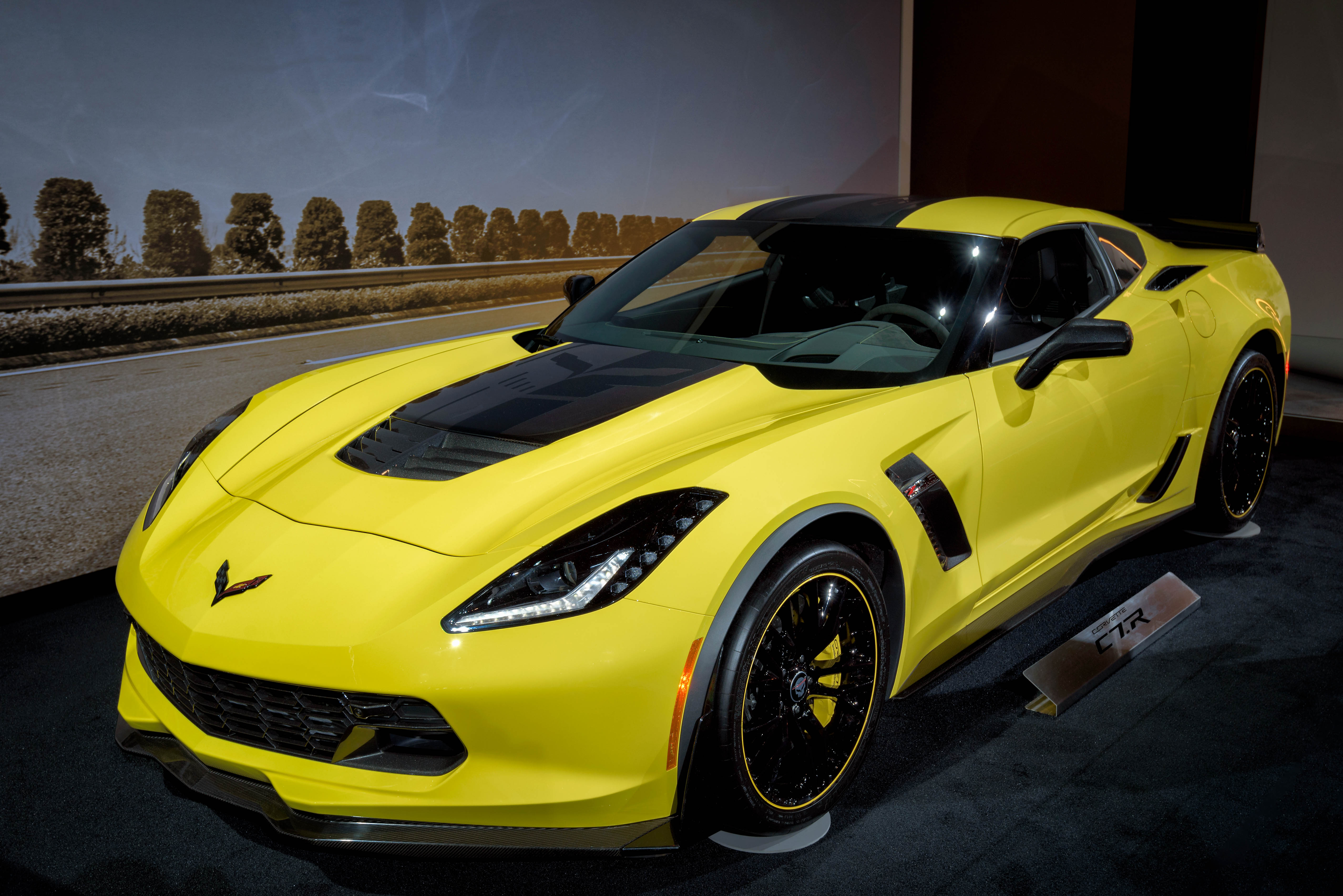 Taken at the 2016 Toronto International Auto Show.